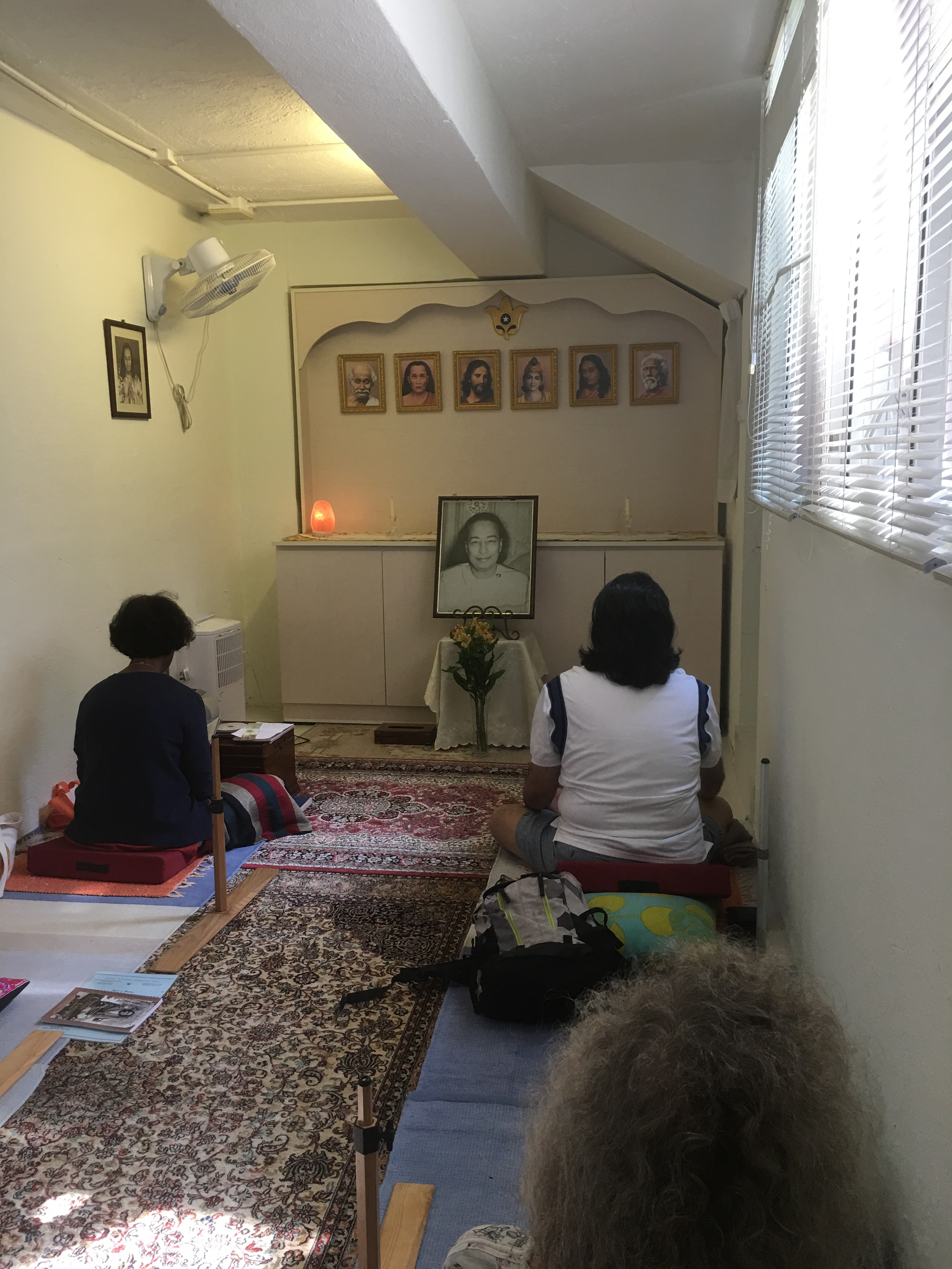 Altar of the meditation circle Hong Kong. Group of Self-Realization Fellowship.